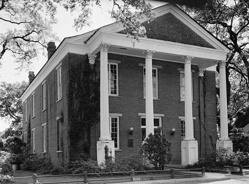 Winyah Indigo Society Hall — on Prince & Cannon Streets within the Georgetown Historic District, in Georgetown, in Georgetown County, South Carolina. 1958 image: HABS—Historic American Buildings Survey of South Carolina, cropped.